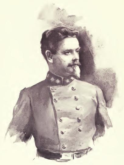 Portrait of Colonel Thomas H. Carter, officer of the Confederate Army